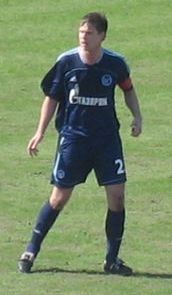 Vladislav Radimov. 2006 Russian Premier League (FC Zenit St.Petersburg v.s. FC Spartak Moscow)